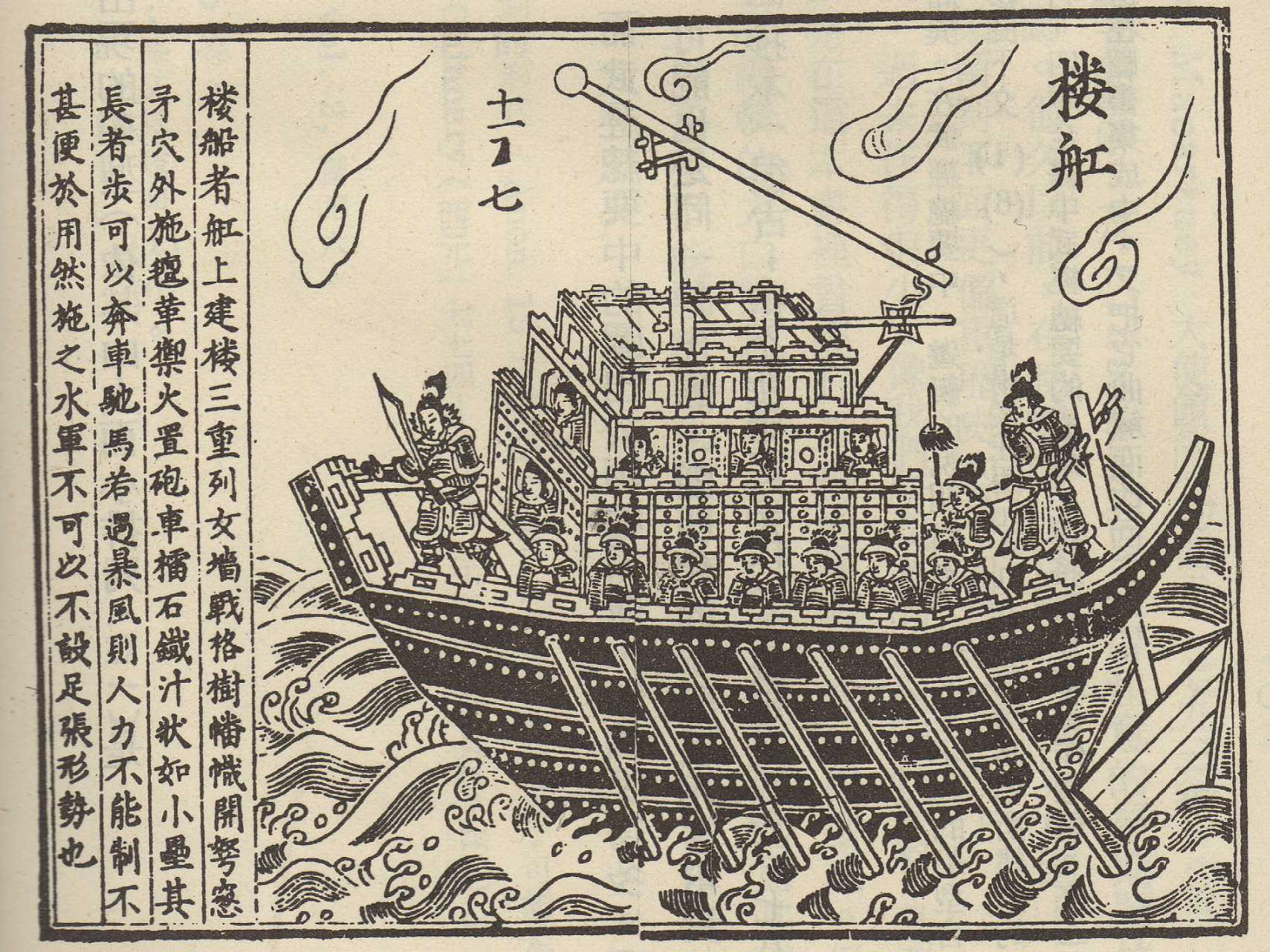 Song Dynasty Rivership with Xuanfeng Traction Catapult from the Wujing Zongyao, the 1510 edition of the Ming Dynasty. The photographs are part of my book. You're welcome to use them on Wikipedia so long as you list my book "Chinese Siege Warfare: Mechanical Artillery & Siege Weapons of Antiquity" by Liang Jieming (ISBN 981-05-5380-3) as the source. I hope that helps. Cheers, Leong Kit Meng (Liang Jieming)